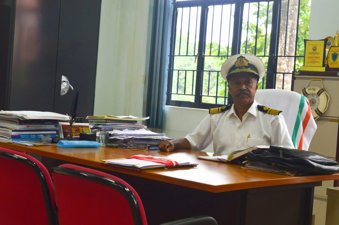 Professor Doctor KA Simon took over the office as the director of the Kunjali Marakkar School of Marine Engineering in 2008 and retired in 2019.This photo was taken during his sent off from my mobile camera.